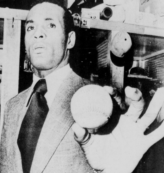 Professional baseball player Roberto Clemente holding his 3,000th hit ball in 1972.